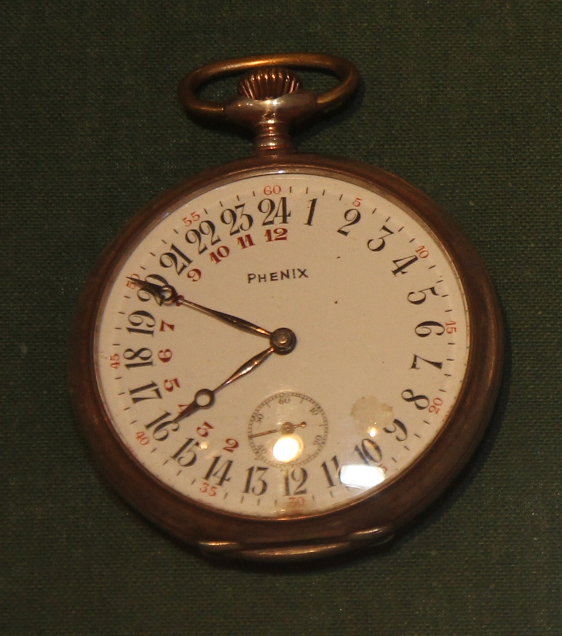 Finnish jäeger officer Ilmari Salovaara 24-hour Phenix watch in Hämeenlinna artillery museum.